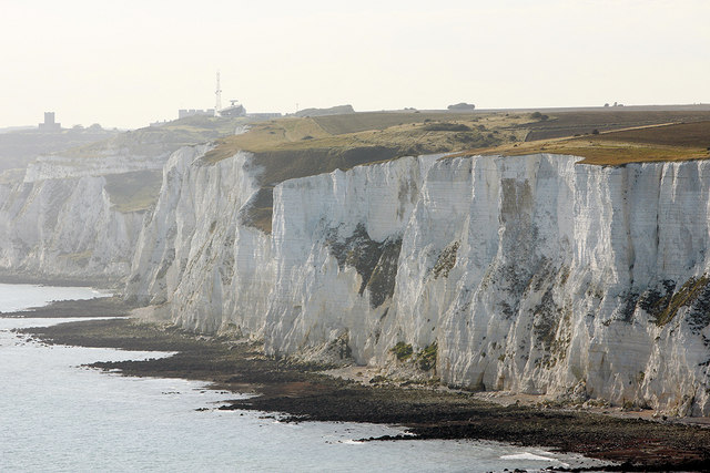 Aerial photo showing Fan Bay, Dover Cliffs An aerial photo of the white cliffs of Dover, looking westwards with Fan Bay and Fan Point in the centre.